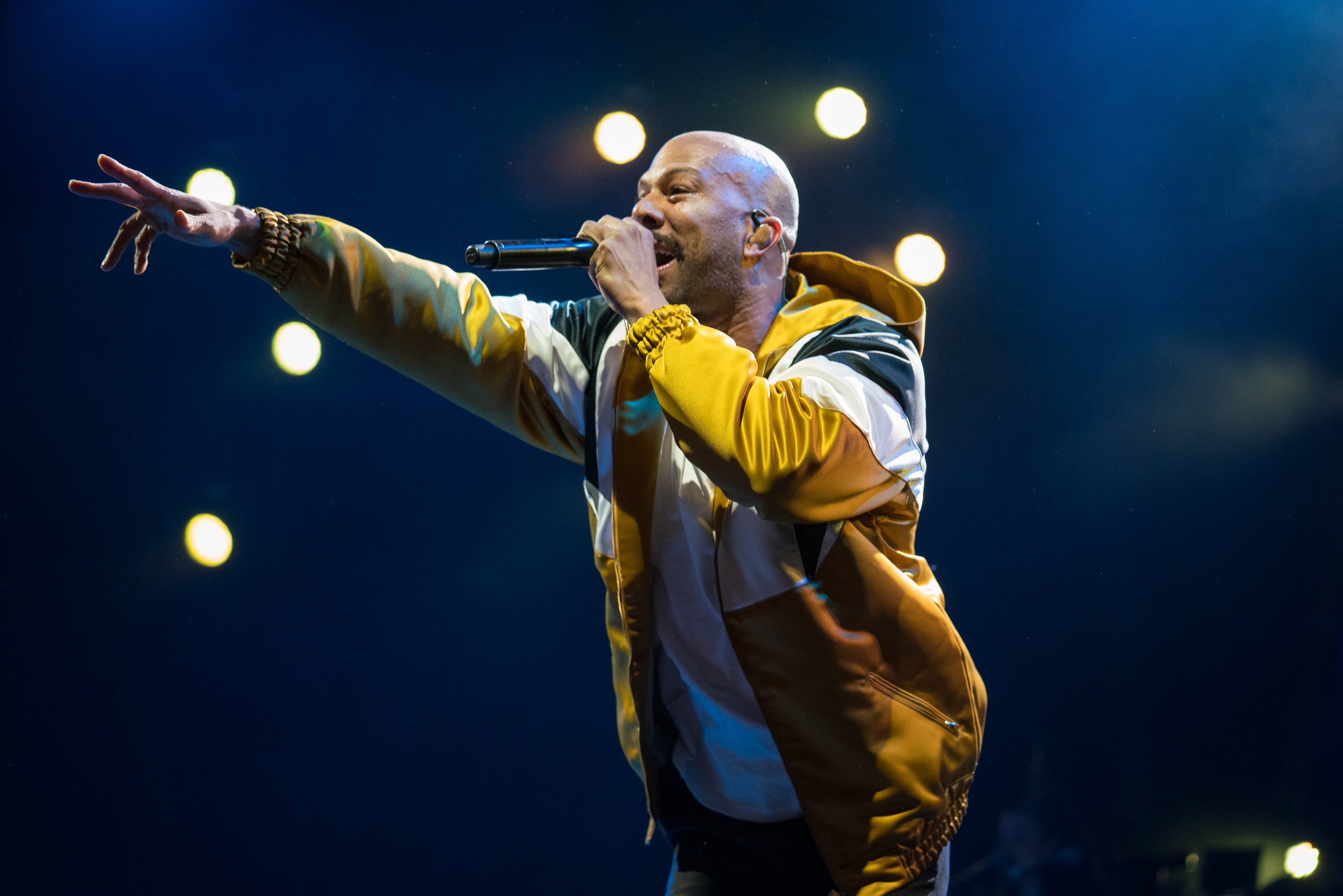 June 5, 2018 Prospect Park Bandshell Brooklyn, NY Photo by Steven Pisano